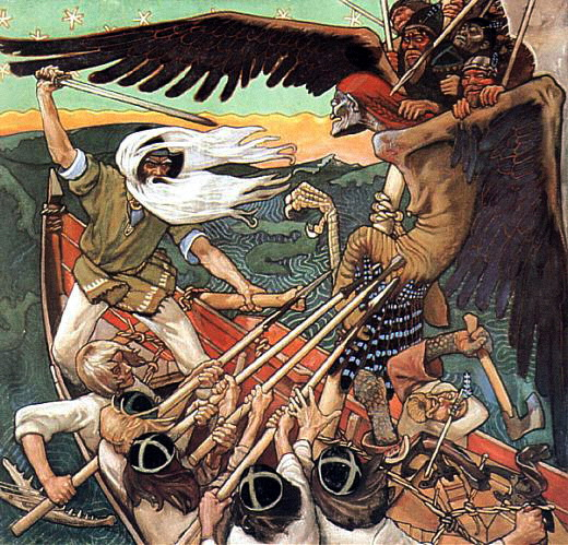 Gallen-Kallela The defence of the Sampo